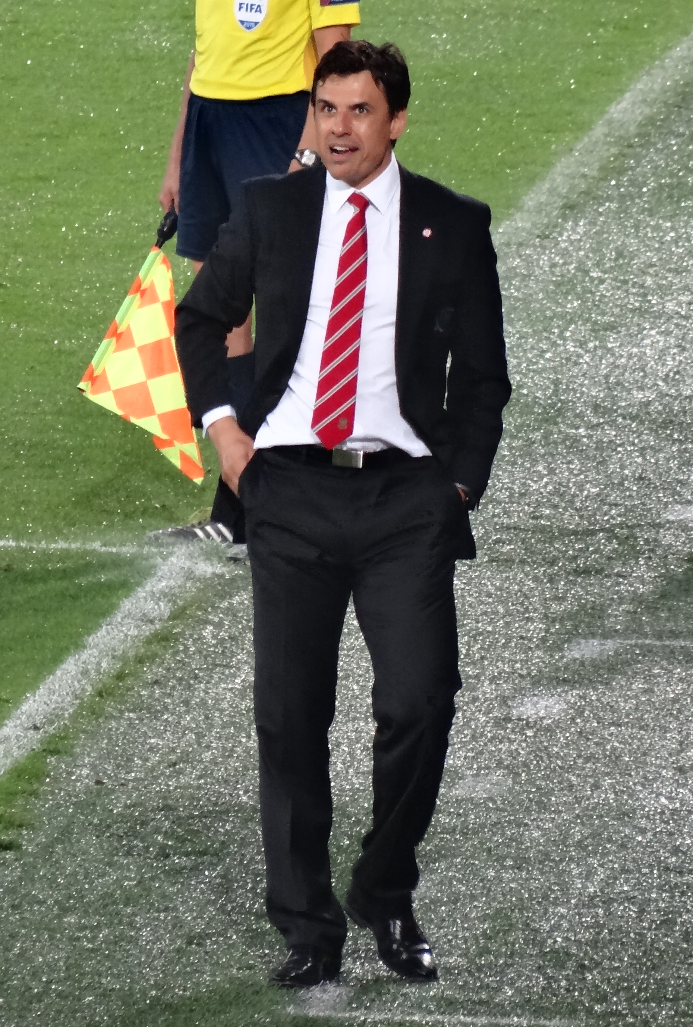 Chris Coleman as a coach of Wales in 2015